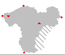 Map of Salland showing its extreme points